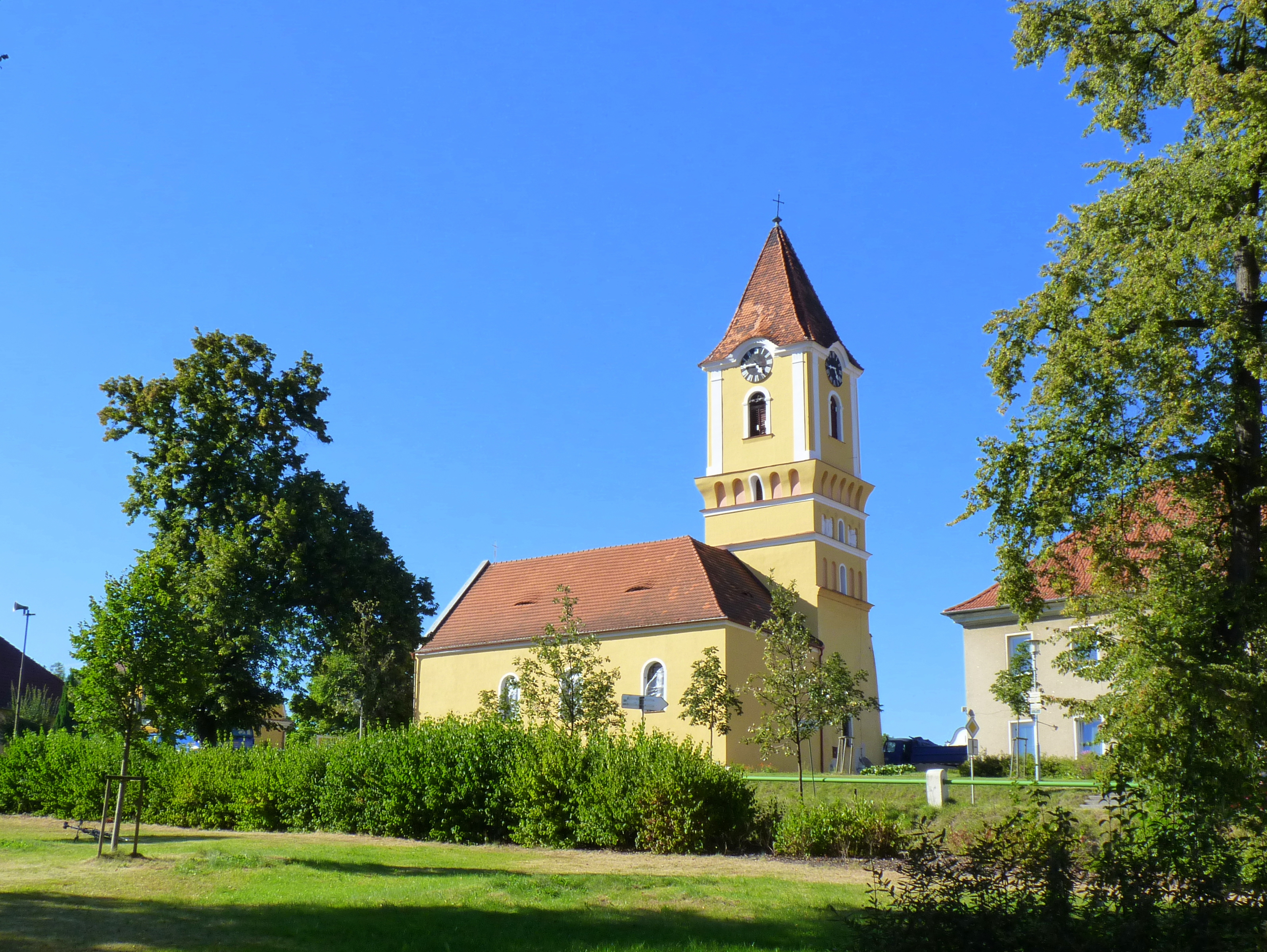 Kostel sv. Filipa a Jakuba